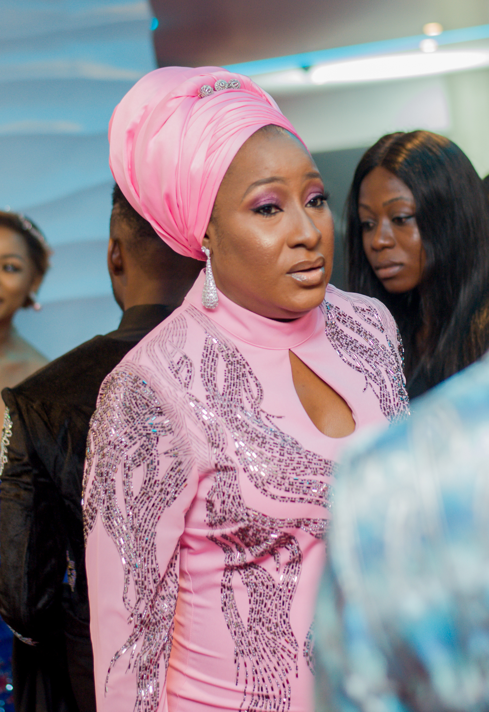 Pictures from AMVCA 2020